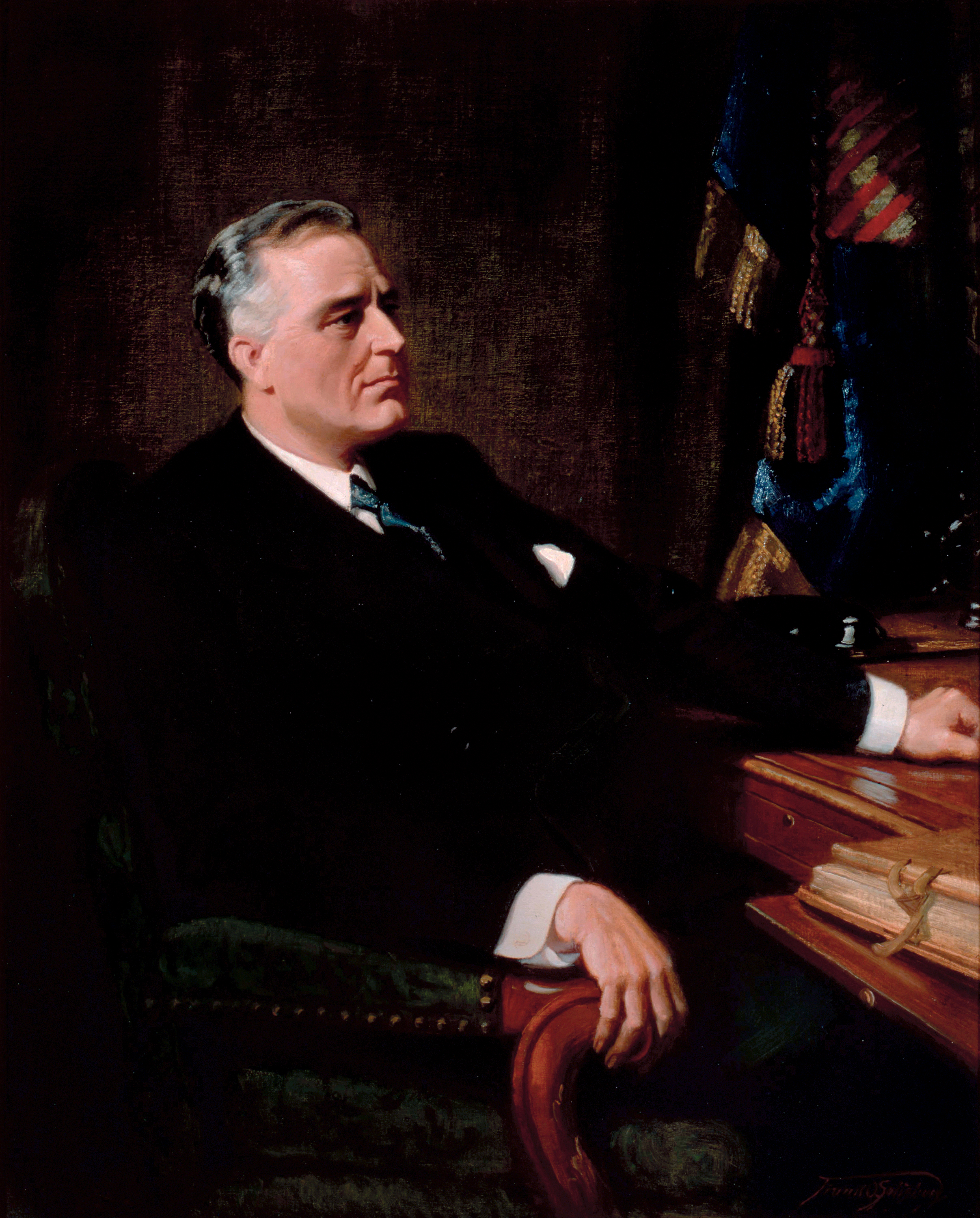 Official Presidential portrait of Franklin Delano Roosevelt